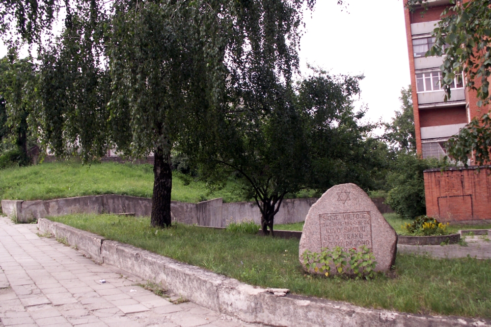 In this place there were jews ghetto 1941–1945, Šiauliai, Lithuania